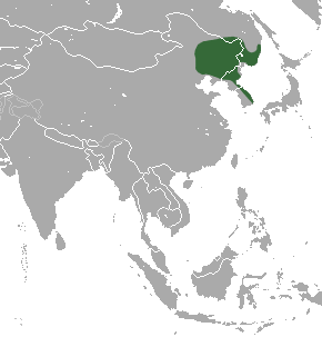 Large Mole (Mogera robusta = Mogera wogura robusta for Mammal Species of the World (2005)) range